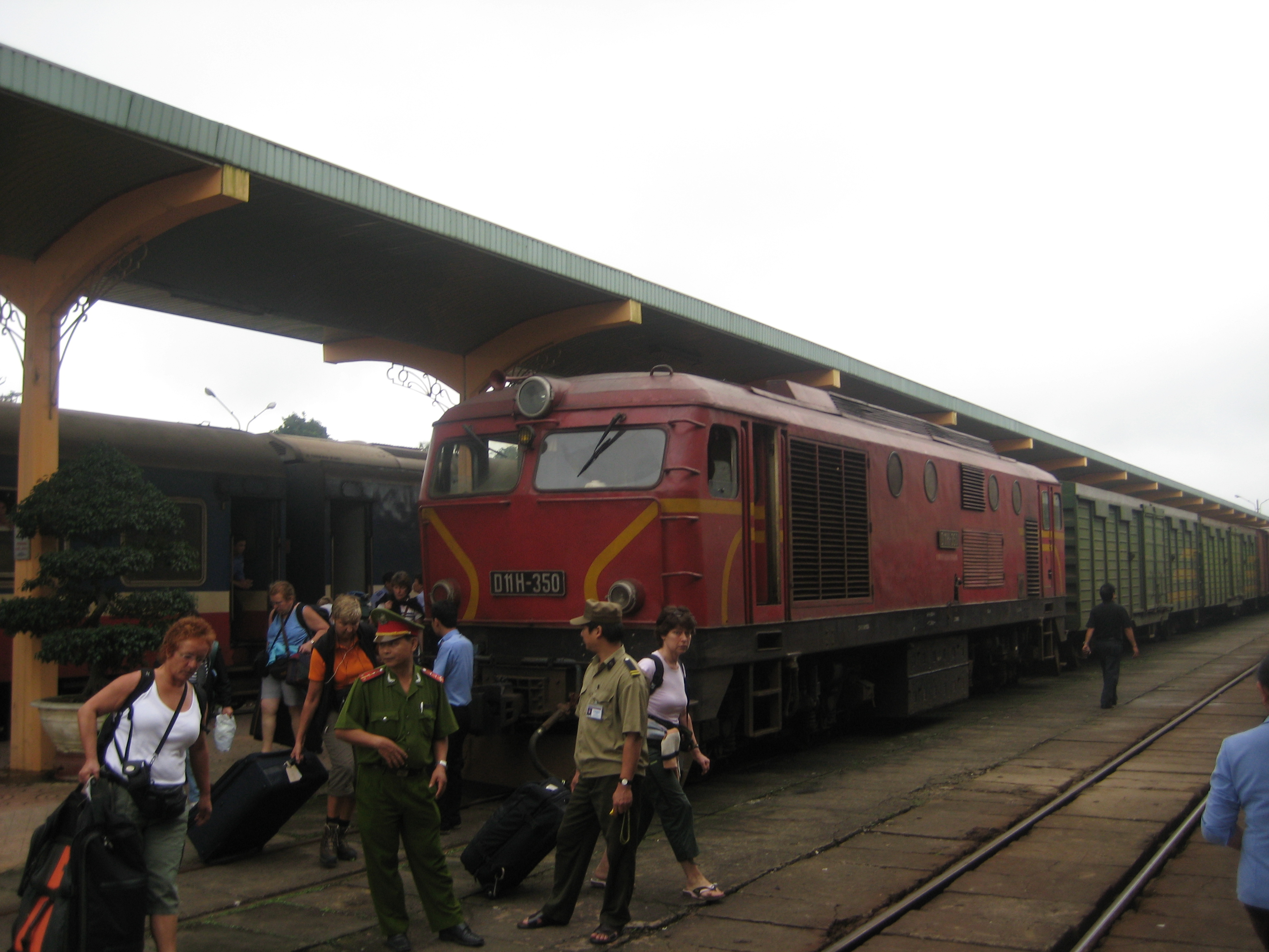 Vietnamese locomotive Thanh Pho